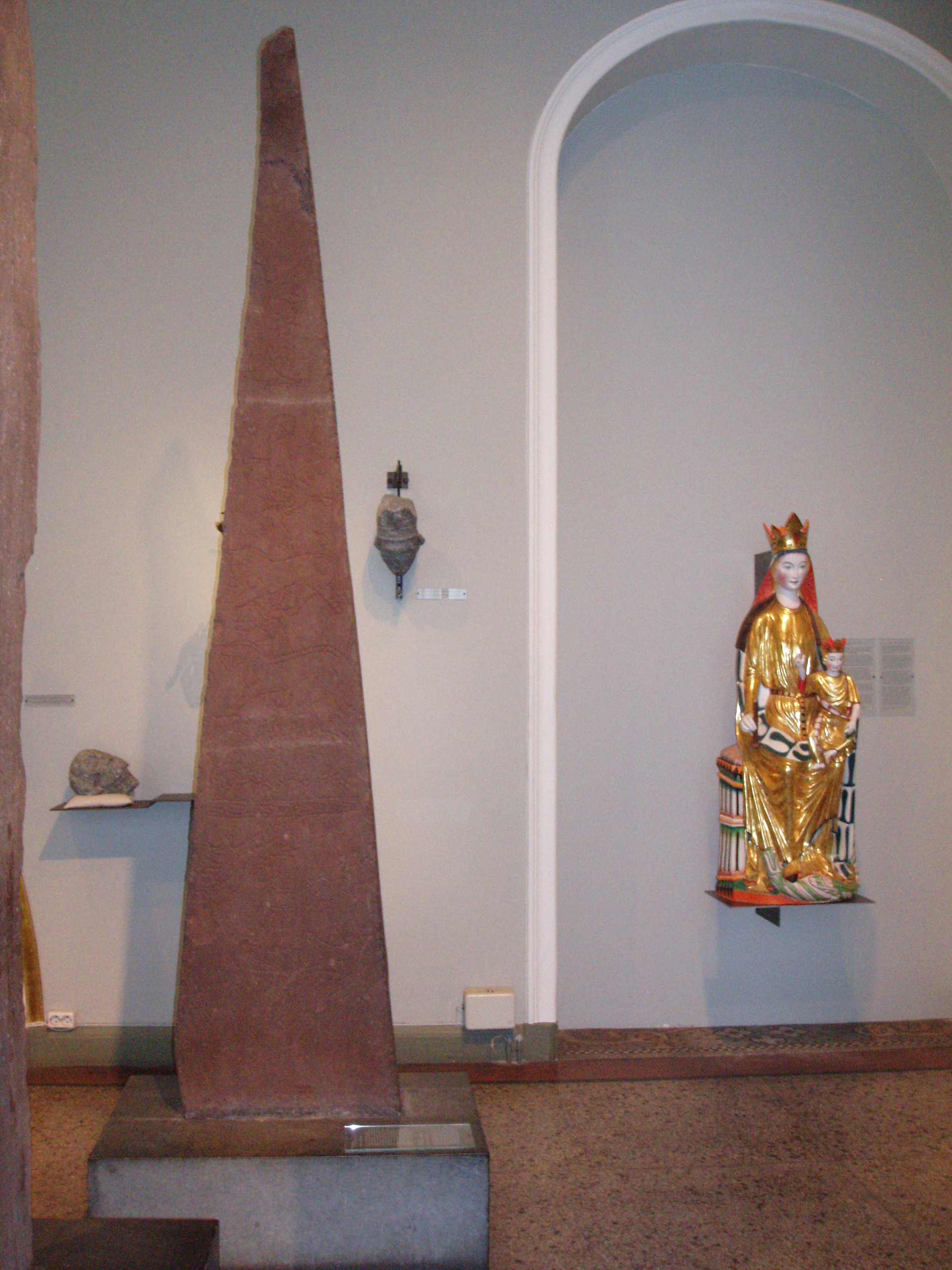 The Dynna runestone, as displayed in the Museum of Cultural History in Oslo, Norway. The Dynna stone is according to the object display in the museum dated to ca. 1040-1050 CE, and was discovered in Dynna, Gran, Oppland, Norway. The stone features Christian iconography.